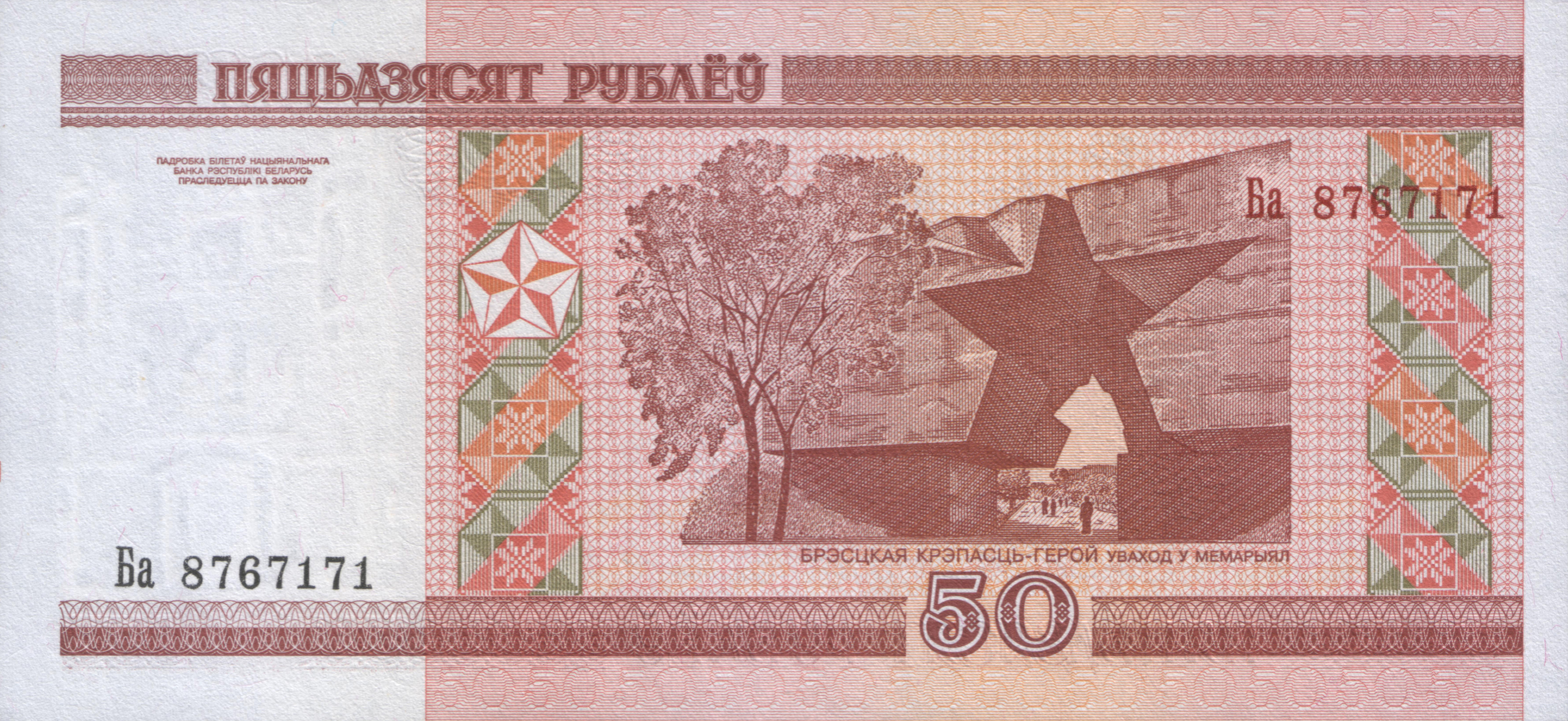 50 roubles of Belarus (2010)